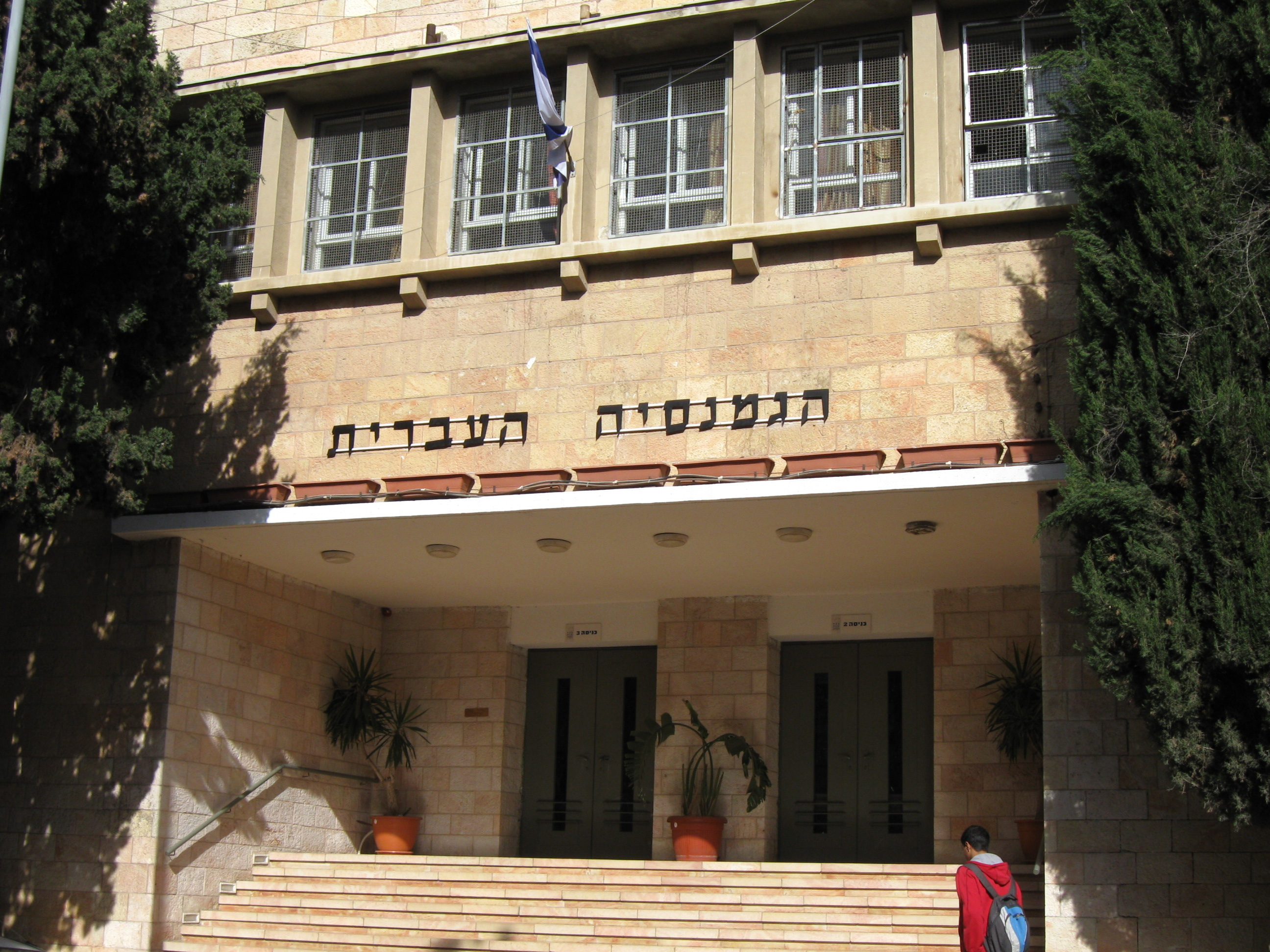 Entrance of HaGymnasia HaIvrit (Hebrew Gymnasium) in Rehavia, Jerusalem, Israel.